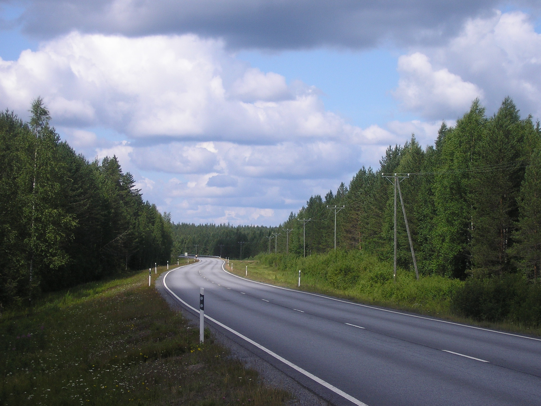 1st class main road 23 in Keuruu, Finland towards Virrat.